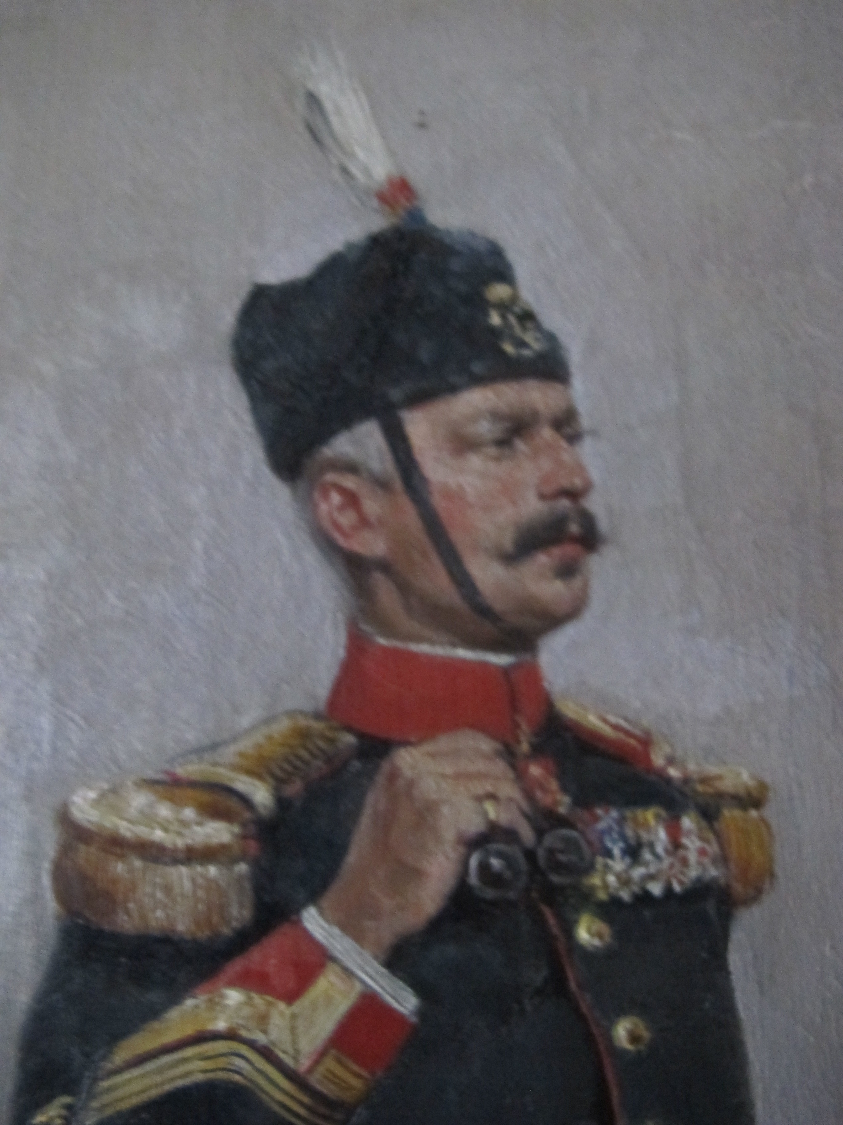 My grandfather's portrait